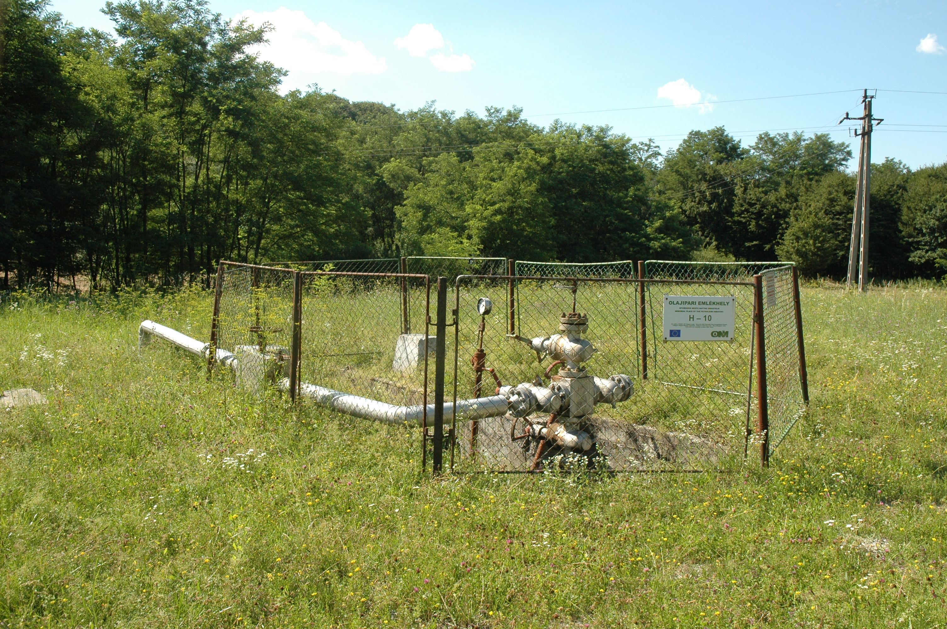 Budafapuszta-2 oil well in Bázakerettye (Zala county, Hungary)